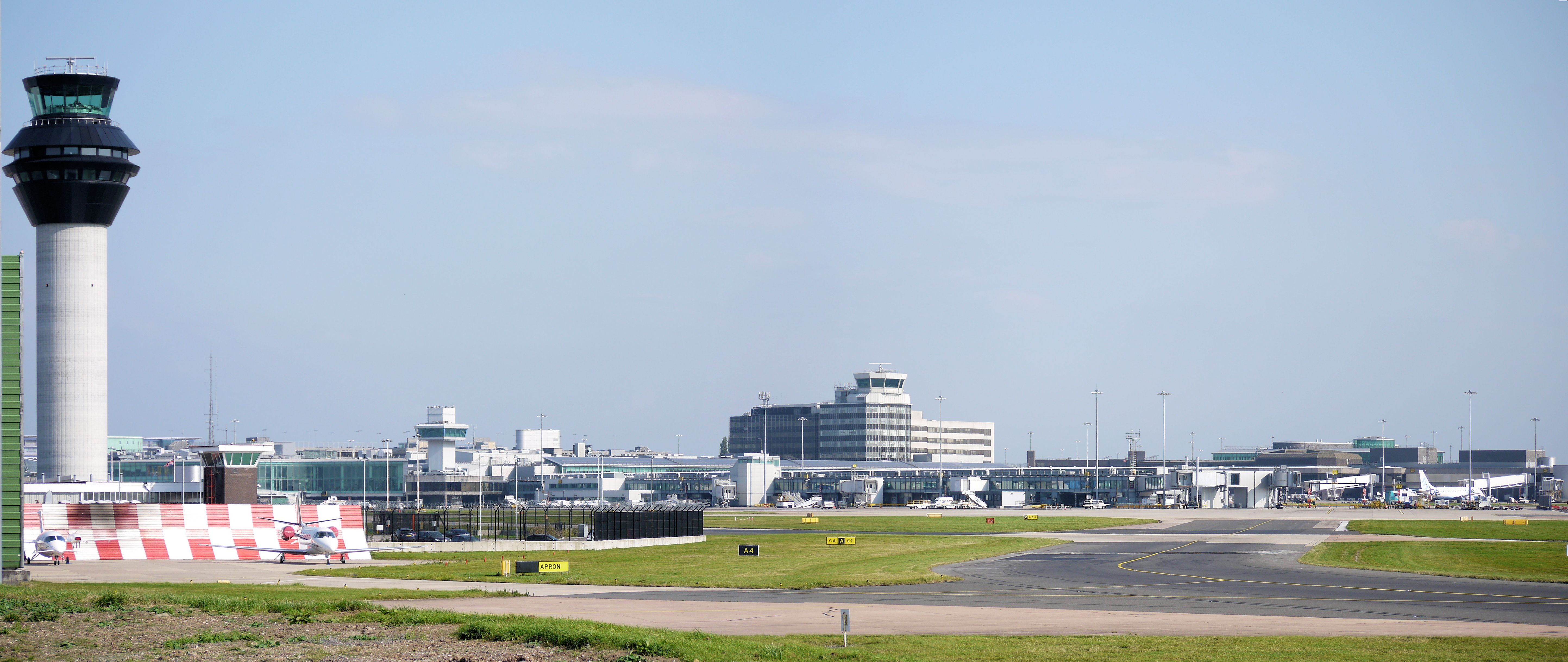 Manchester Airport, Runway Park